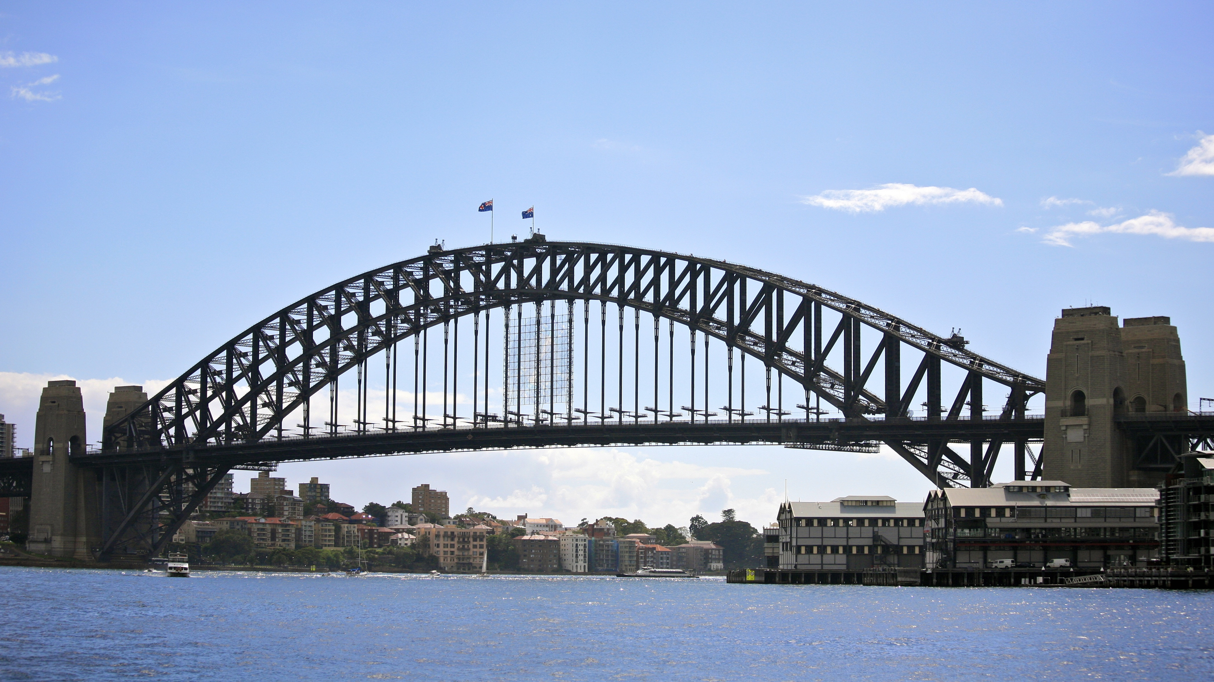 Passing under the Sydney Harbour Bridge